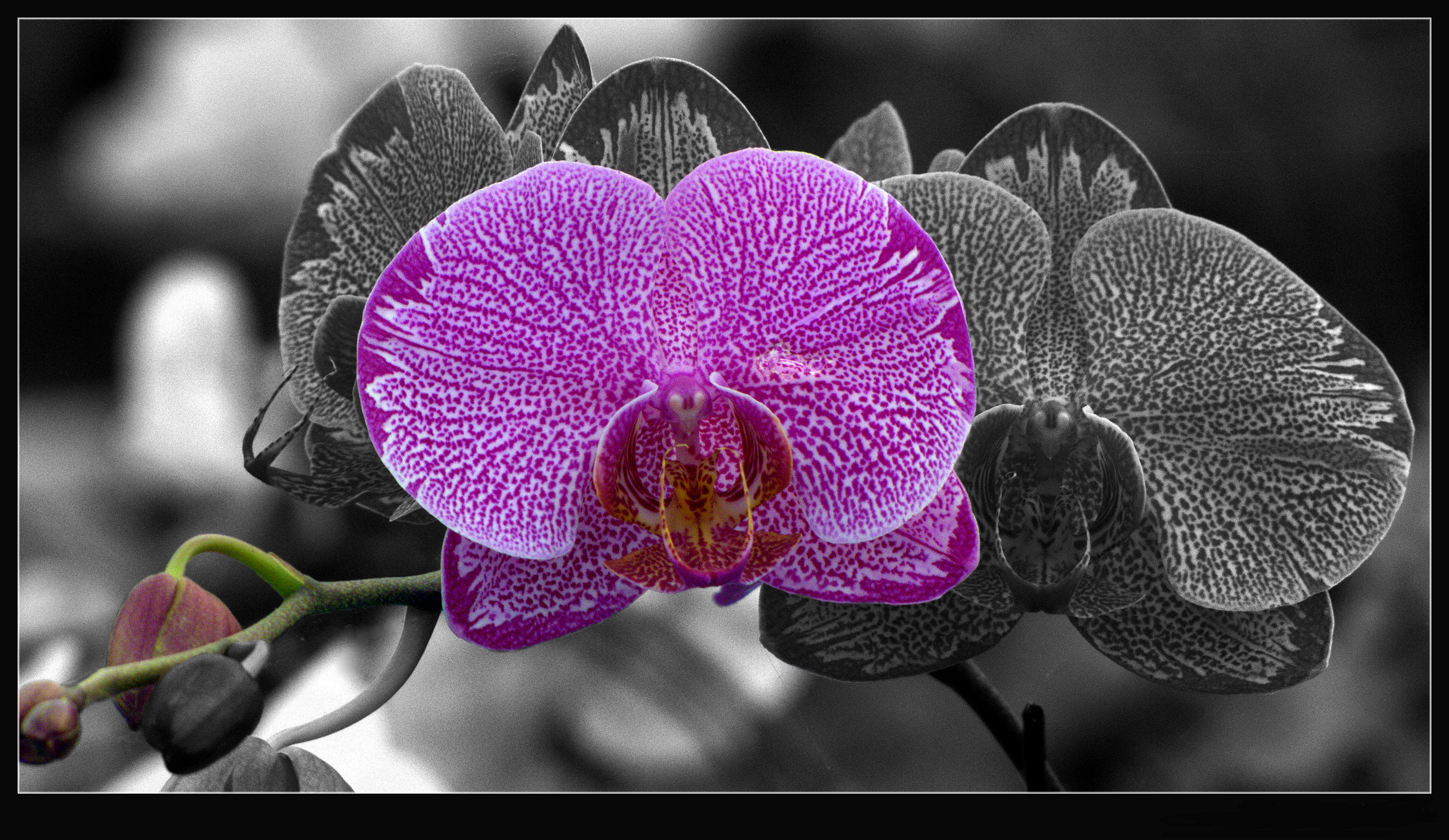 Pink Phalaenopsis